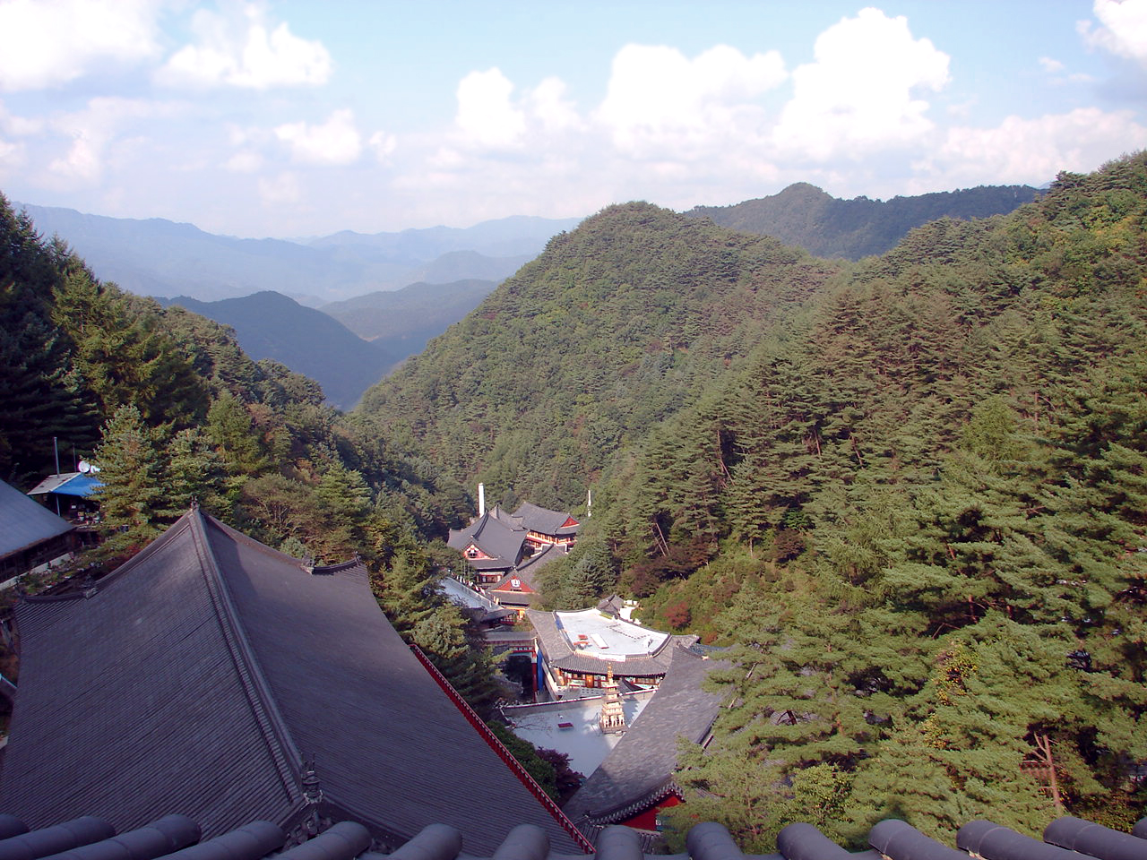 Guinsa Nestled in the Valley in Sobaeksan (Sobaek Moutains). Guinsa, located near Danyang South Korea, has architecture following that of many other Buddhist temples in Korea, but is also markedly different in that the structures are several stories tall, instead of the typical one or two stories that structures found in many other Korean temples.